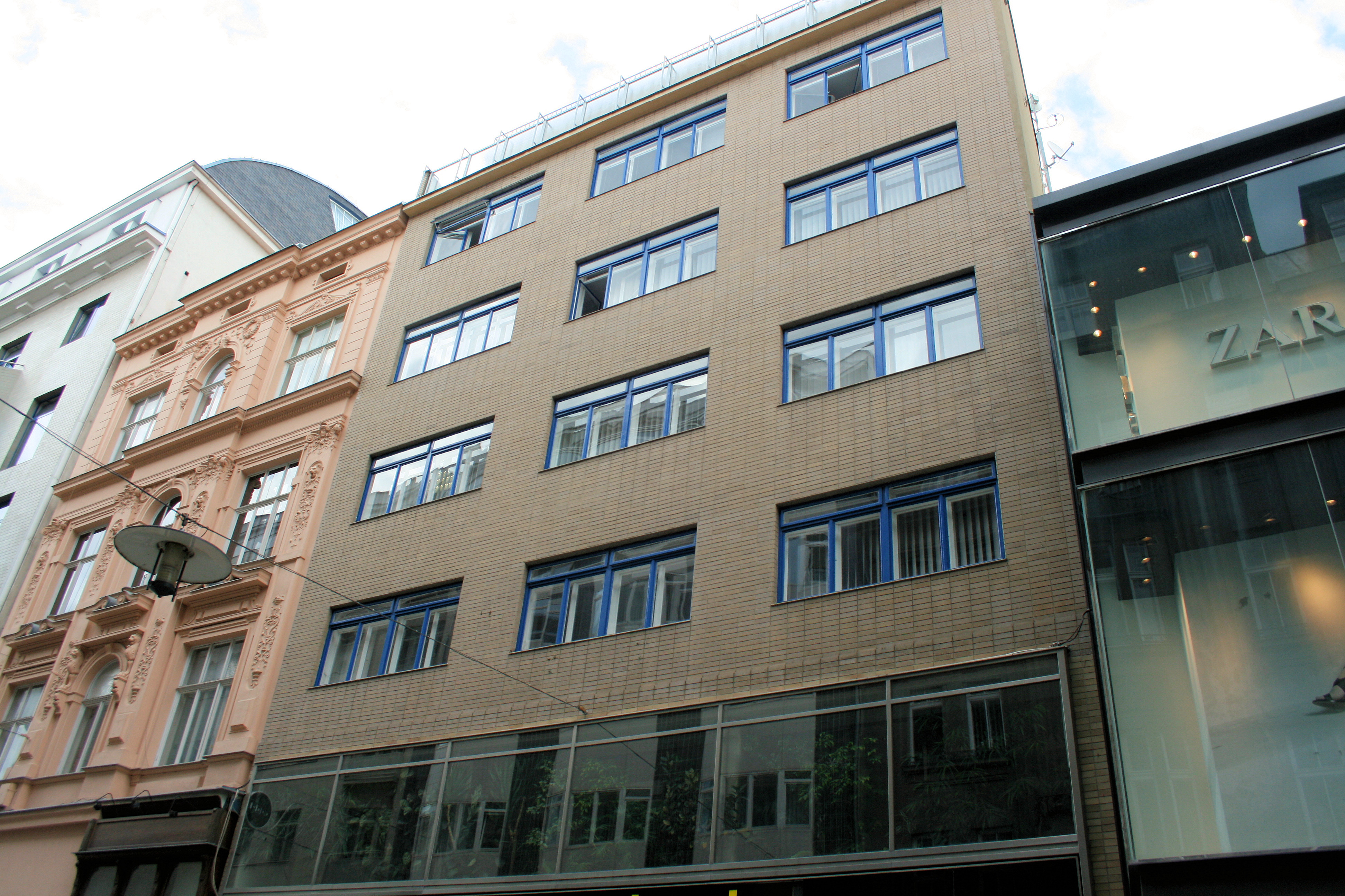 Friedman's apartment and trade house at Česká street No. 12, Brno, Czech Republic. Built by Endre Steiner in 1936. Česky: Fridmanův nájemní a obchodní dům na České ul. 12, Brno. Postaven v roce 1936 architektem Endre Steinerem, v roce 2010 budova banky Raiffeisen. Horní patra uliční fasády.